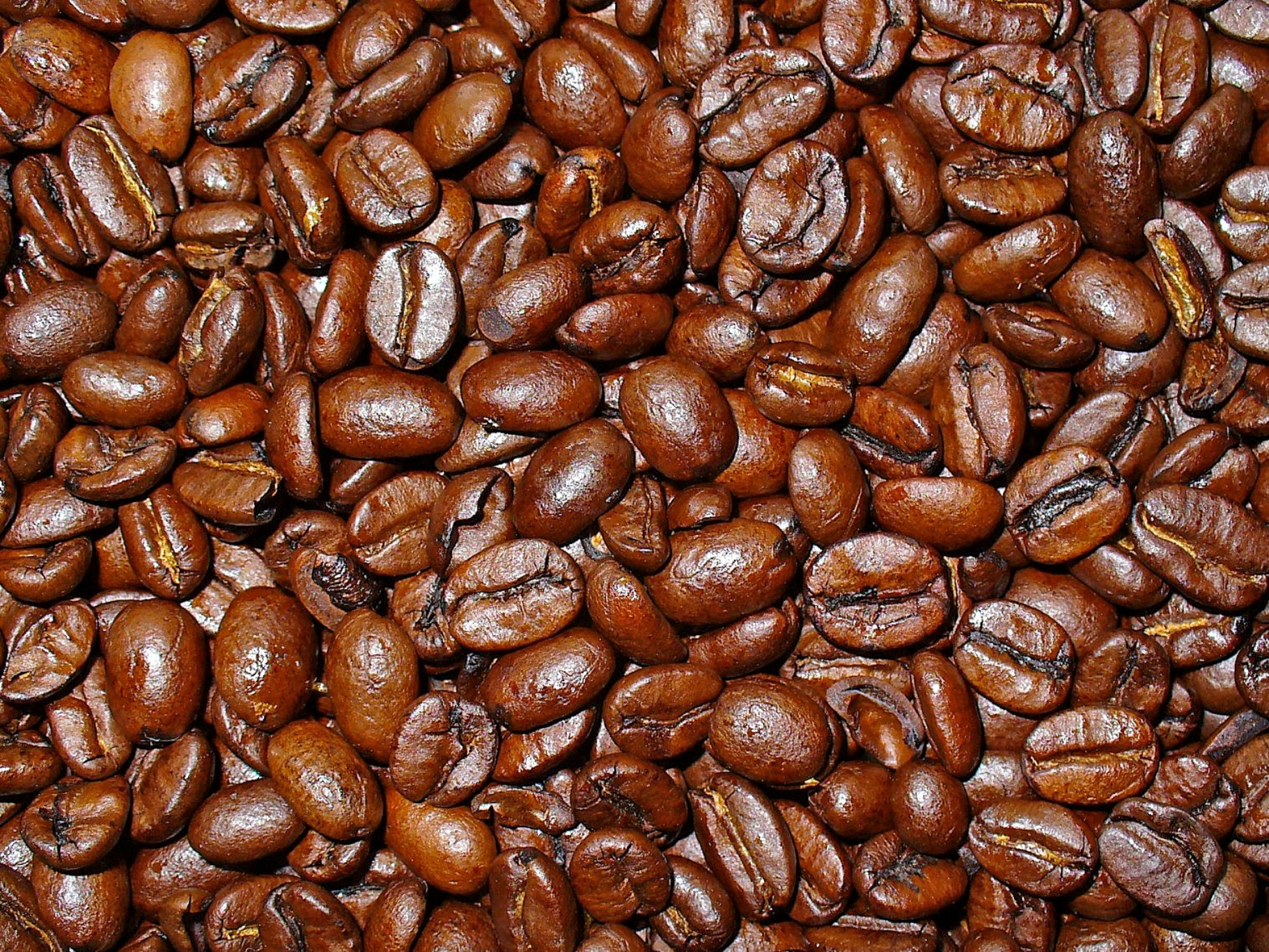 Coffea arabica, Rubiaceae, Arabica Coffee, Mountain Coffee, roasted beans. The unroasted dried beans are used in homeopathy as remedy: Coffea (Coff.)